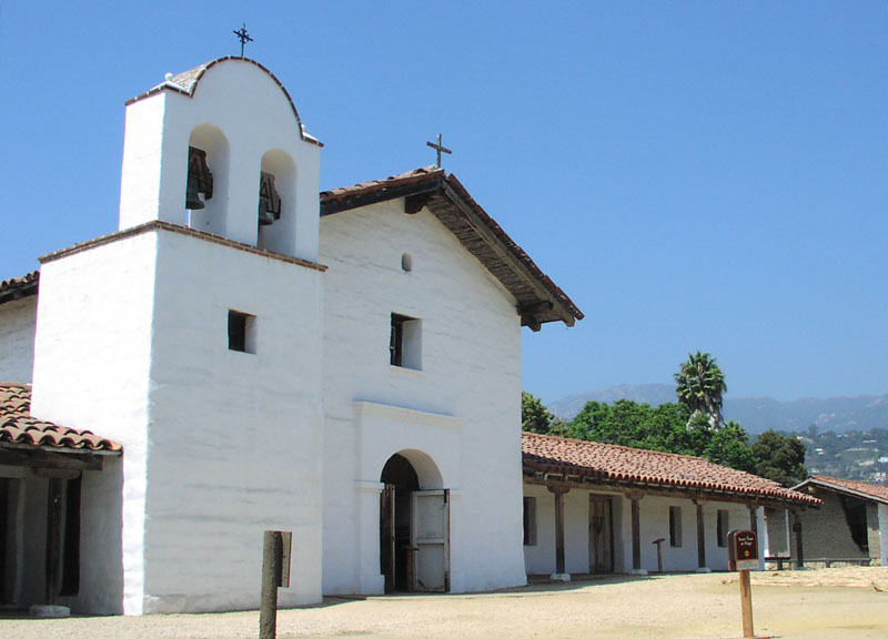 The Presidio of Santa Barbara - El Presidio Real de Santa Bárbara - built in the 1780s in the Spanish colonial era. A history museum in Santa Barbara, Southern California. Restored in the 1950s and 1990s.